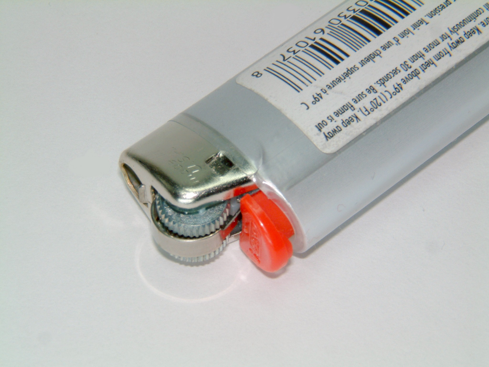 A partial profile view of the ignition system commonly found on lighters sold in North America